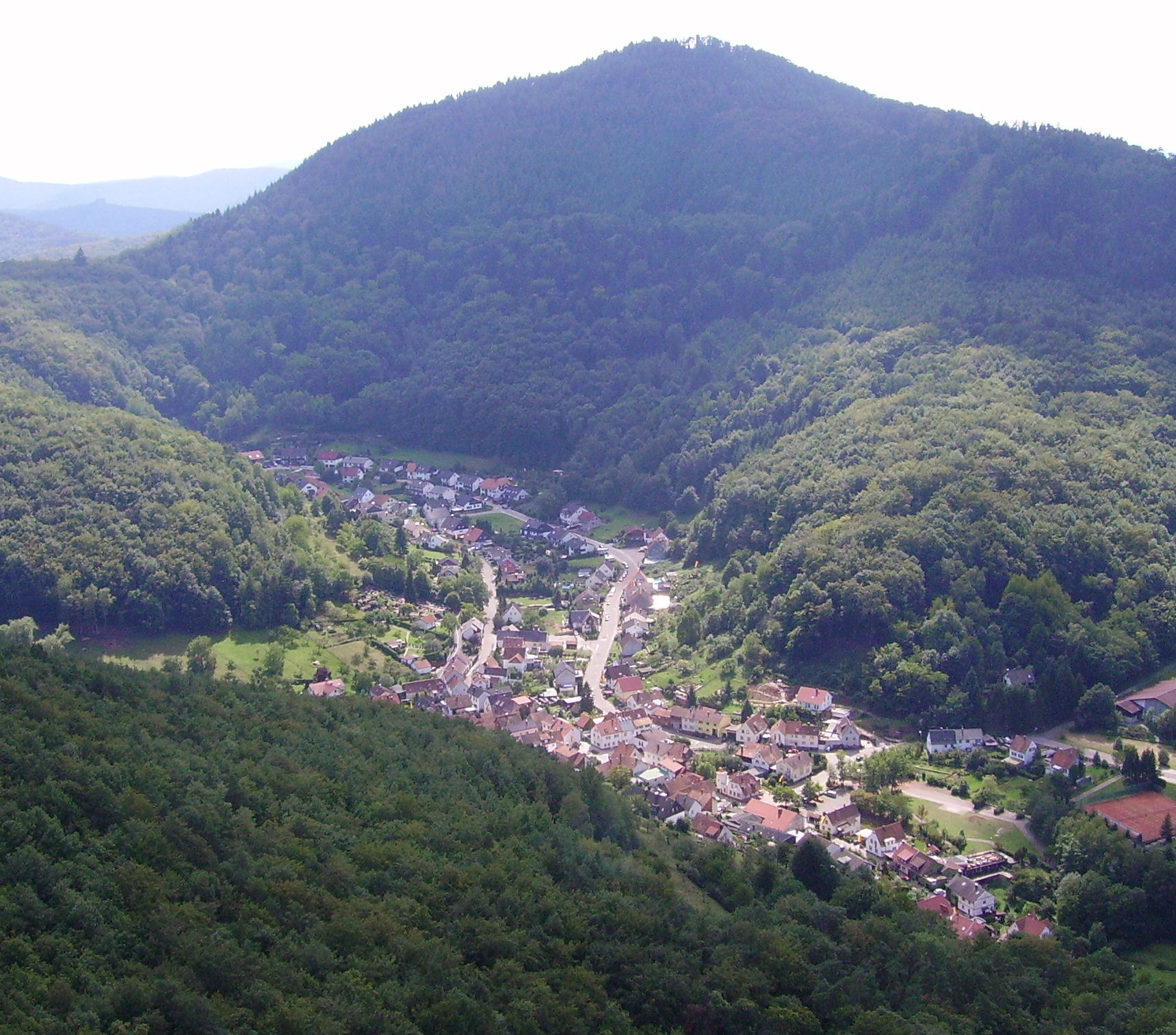 Reichsburg Trifels in Rhineland-Palatinate, Germany